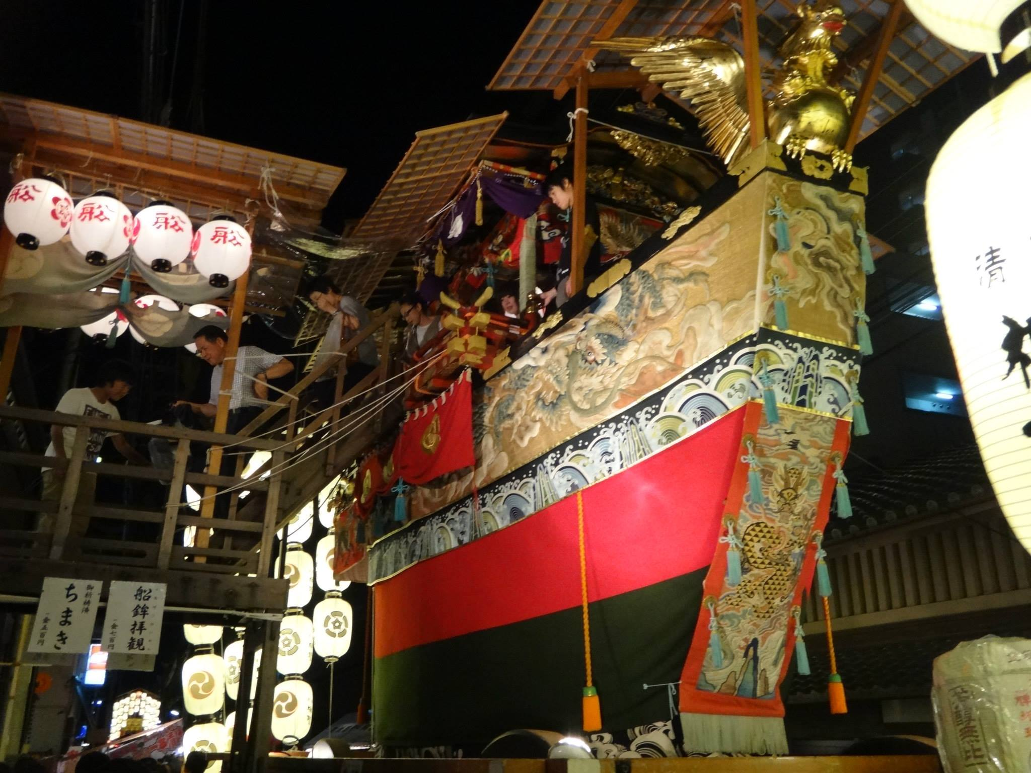 Gion Matsuri. Una de las carrozas tradicionales durante la noche.